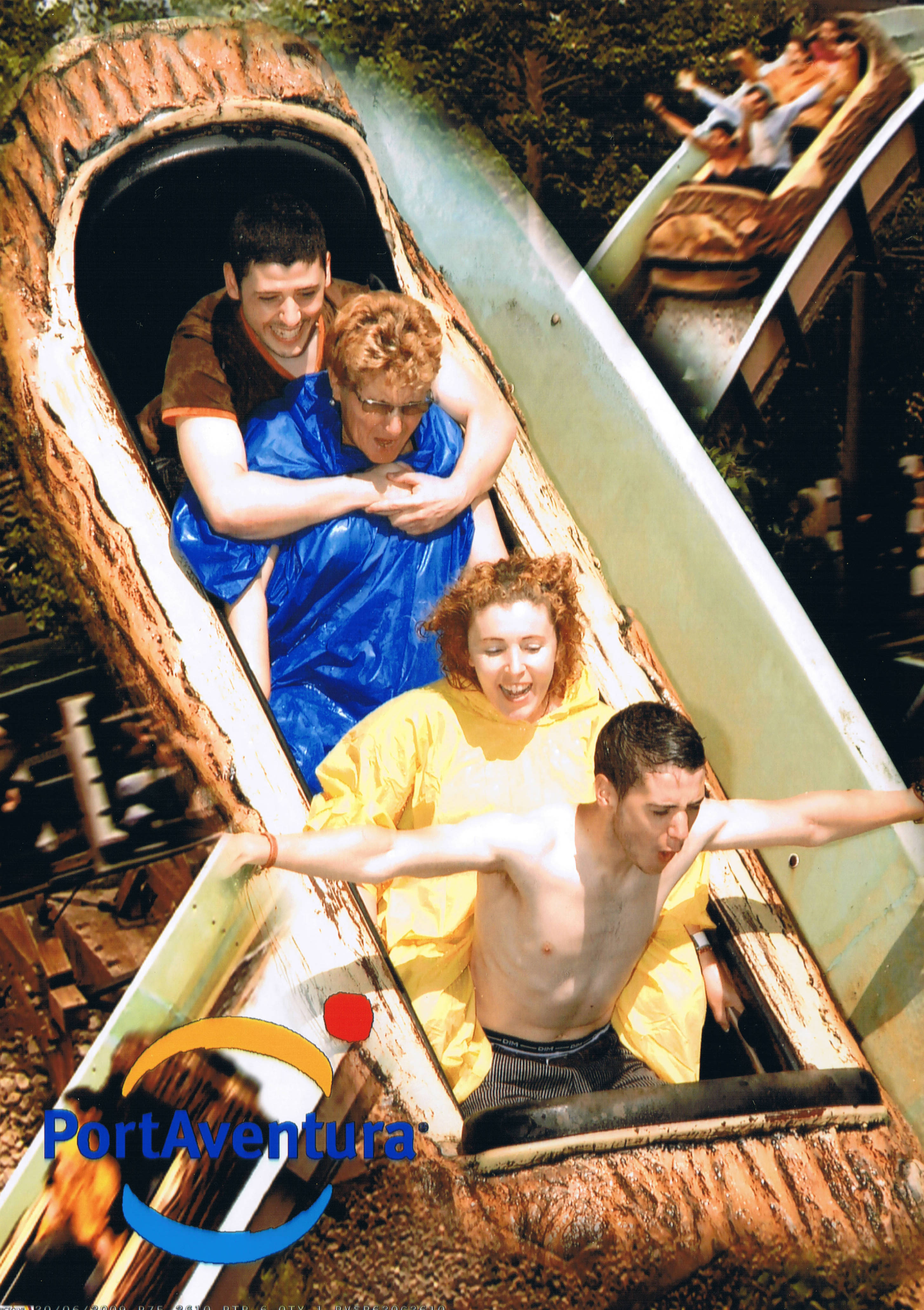 Silver River Flume in Port Aventura, main drop photo ride.